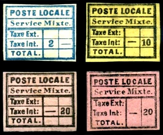 In 1866 the local post distribution company “Liannos et Cie” was established to distribute the mail arriving at Constantinople which was not addressed in Arabic as the staff of the Egyptian post office in the city were not able to do so.